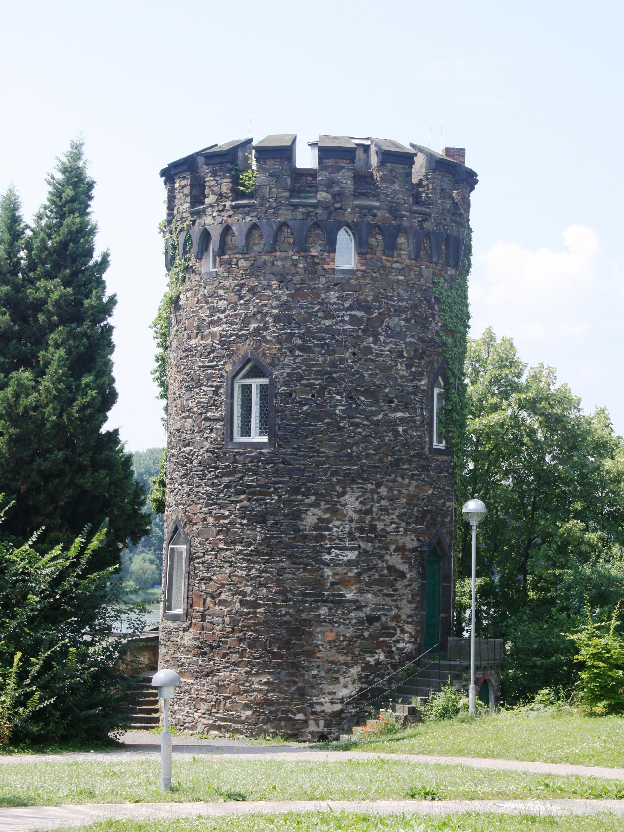 Neuwied-Engers, Germany. Grauer Turm, former toll station of the Electorate of Trier.